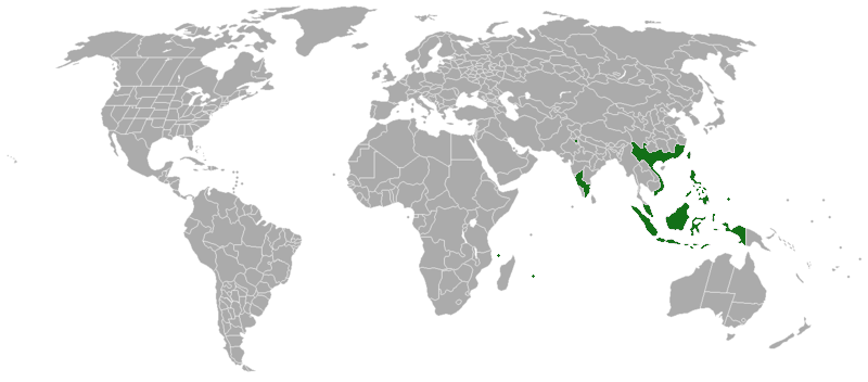 Acacia confusa range map created by using a blank map from the Commons and the GIMP.